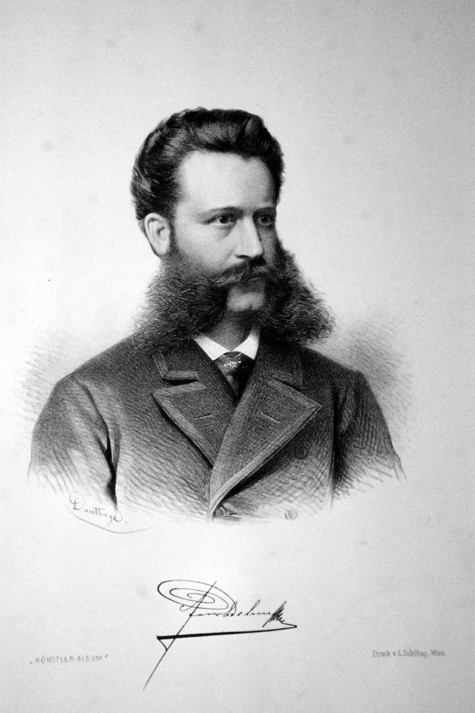 Ferdinand Dehm (1846-1923), Austrian Architect Lithograph by Adolf Dauthage, c.a. 1880 From "Künstler-Album" published by A. Eckstein, Vienna